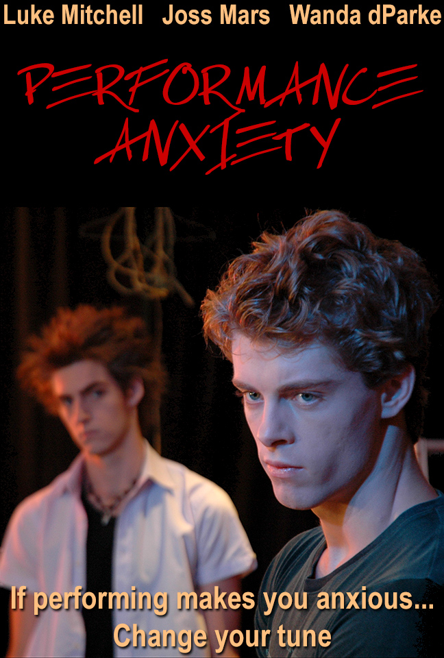 Jeff (played by Joss Mars) looks at Peter (played by Luke Mitchell) in Performance Anxiety (2008 film) poster